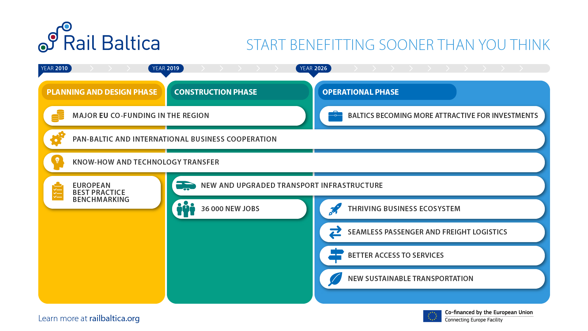 Rail Baltica timeline